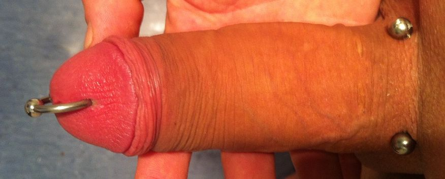 Reverse Prince Albert